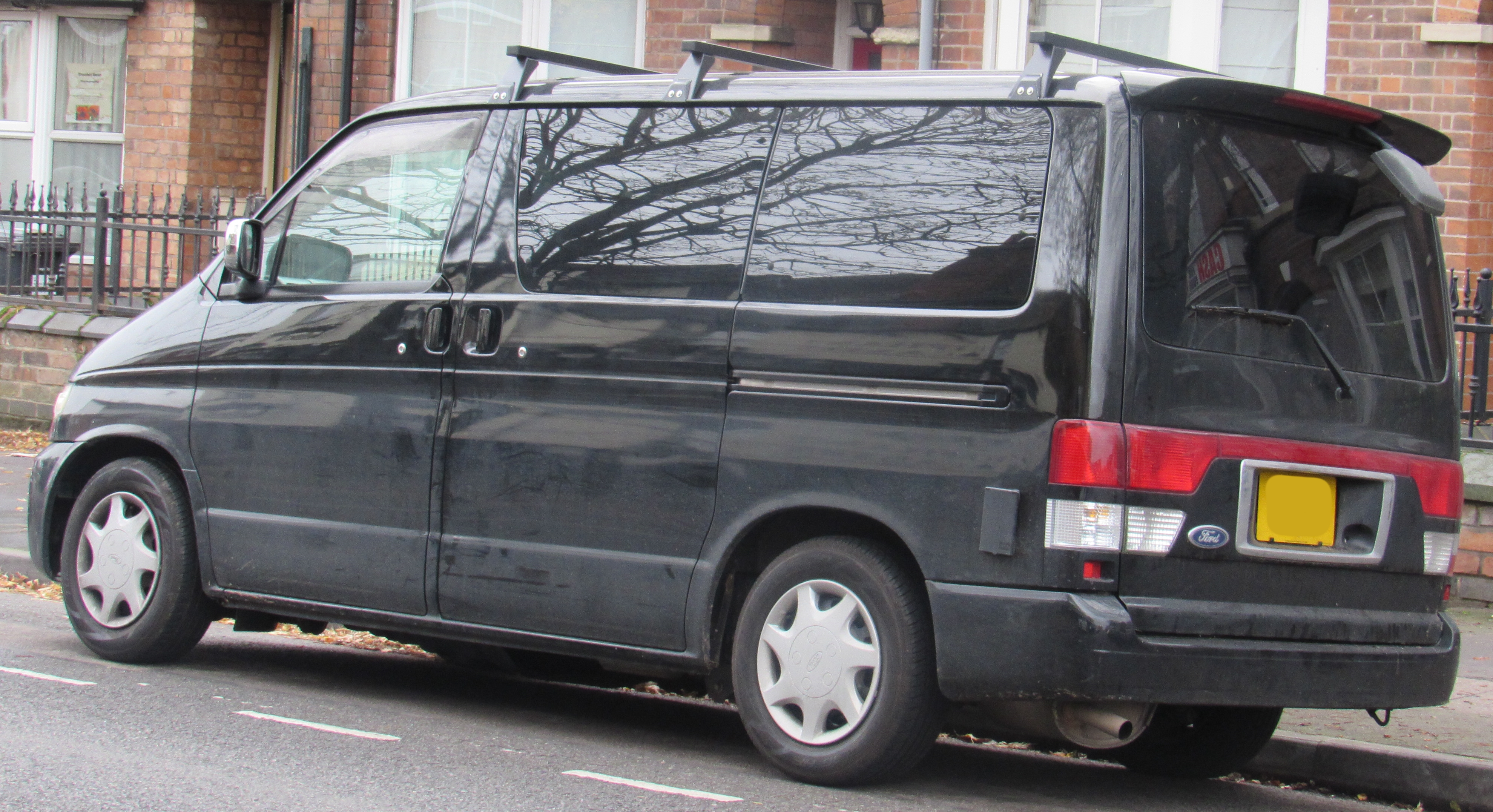 2001 Ford Freda 2.0 Rear Taken in Warwick